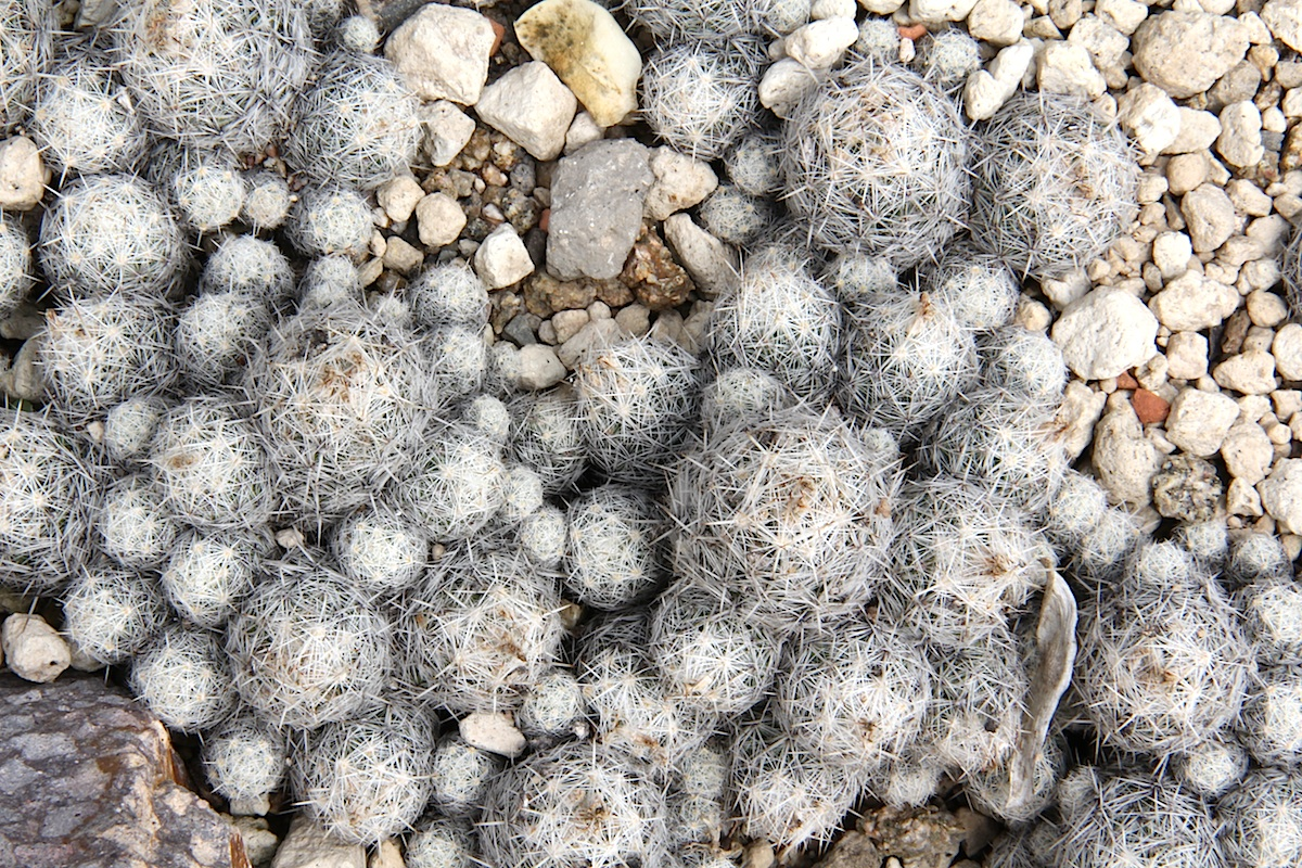 Escobaria sneedii ssp. leei